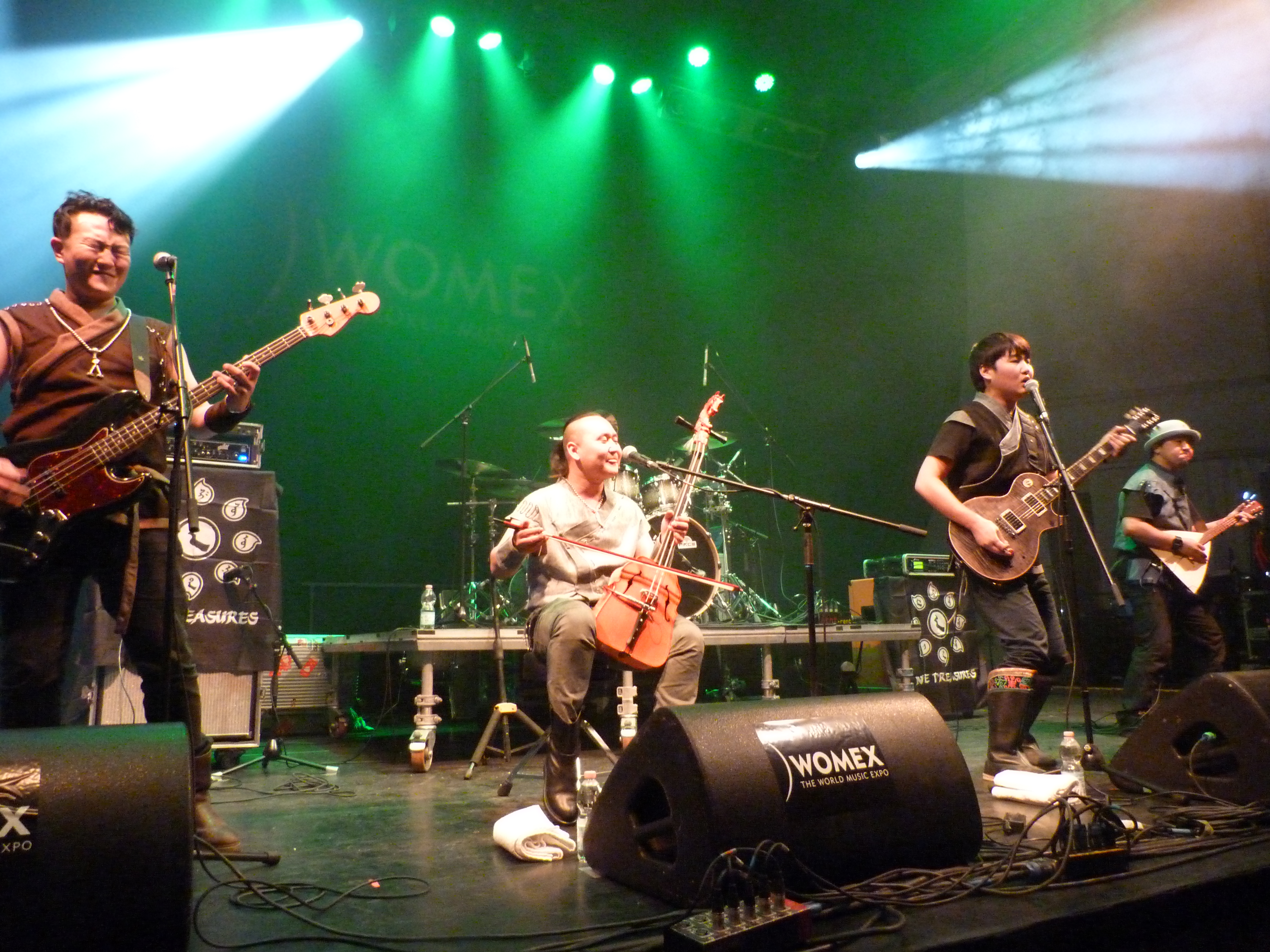 Live on the 22nd of October, 2015. WOMEX 15. Budapest, Hungary.